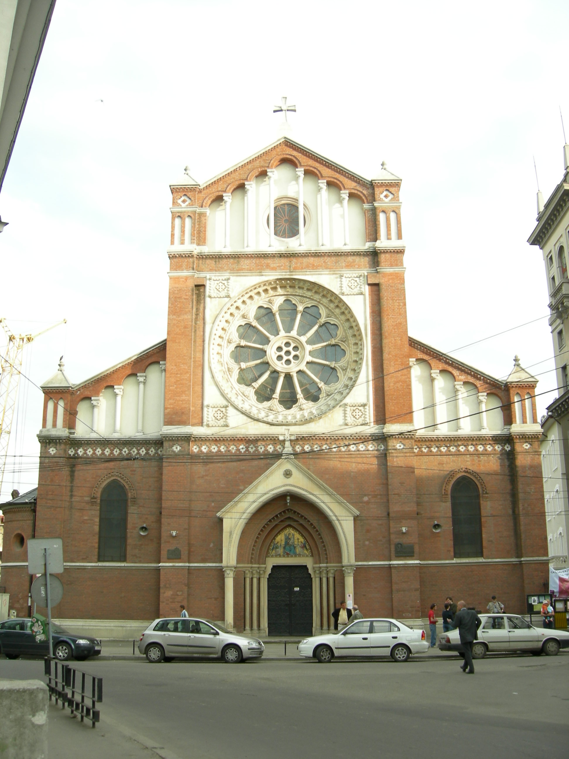 St. Joseph Cathedral (Roman Catholic), Bucharest, Romania